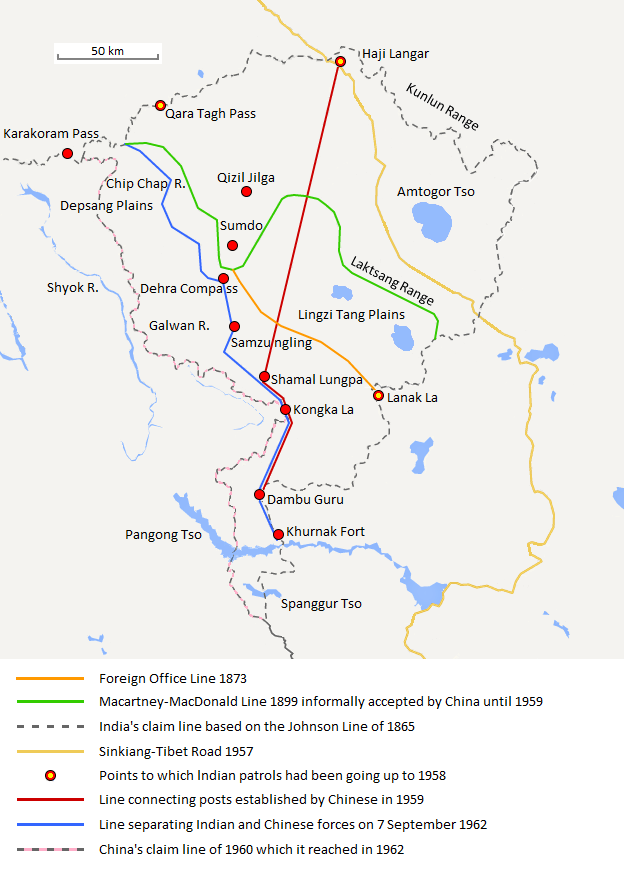 The map shows the Indian and Chinese claims of the border in the Aksai Chin region, the Macartney-MacDonald line, the Foreign Office Line, as well as the progress of Chinese forces as they occupied areas during the Sino-Indian War.